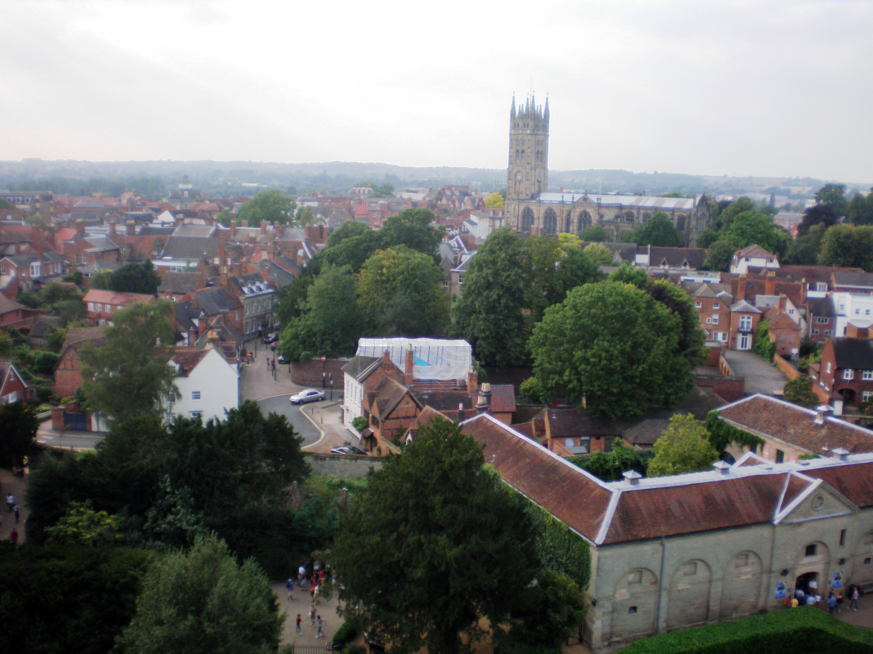 Warwick from the castle